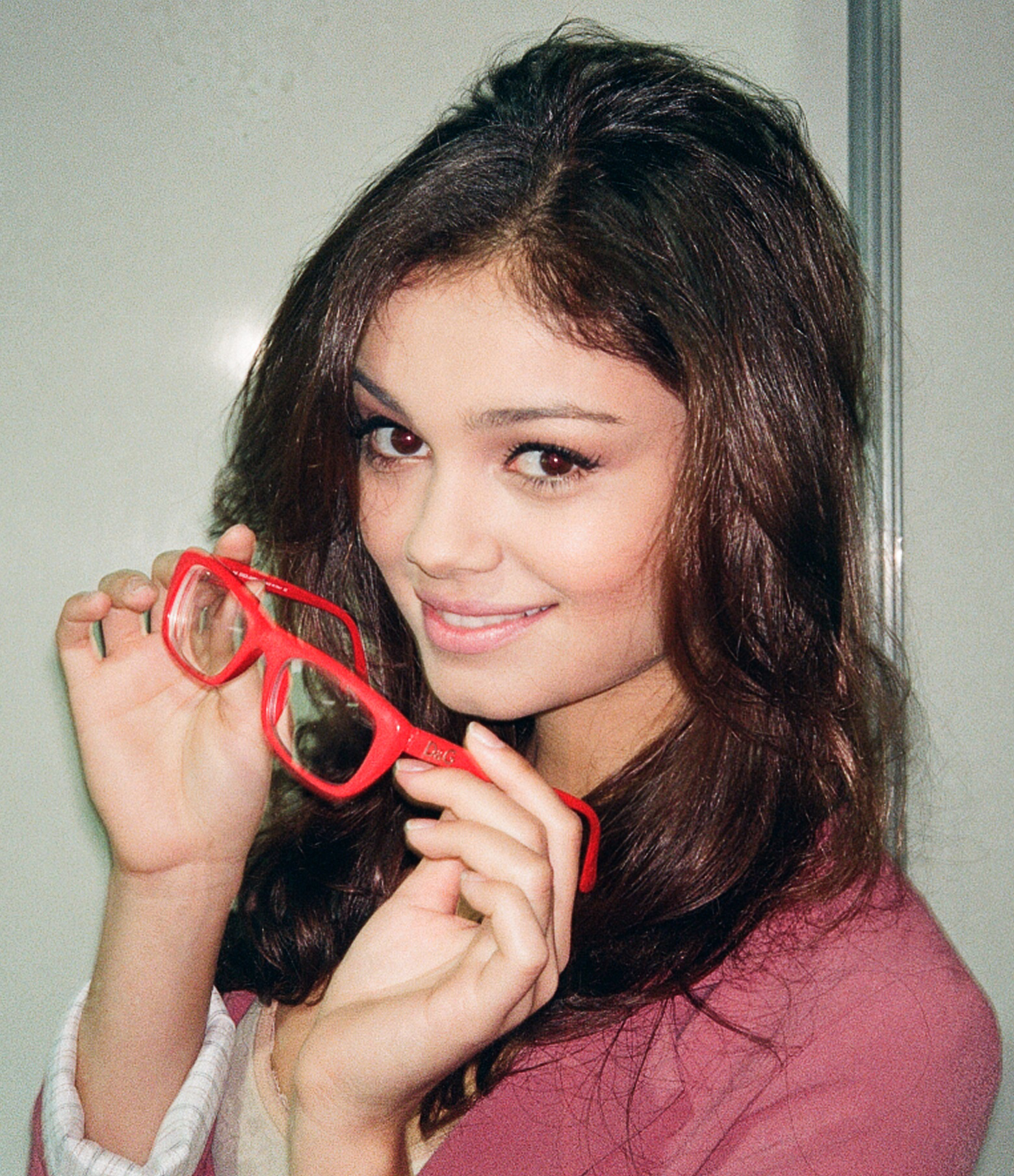 feat. Sophie Charlotte